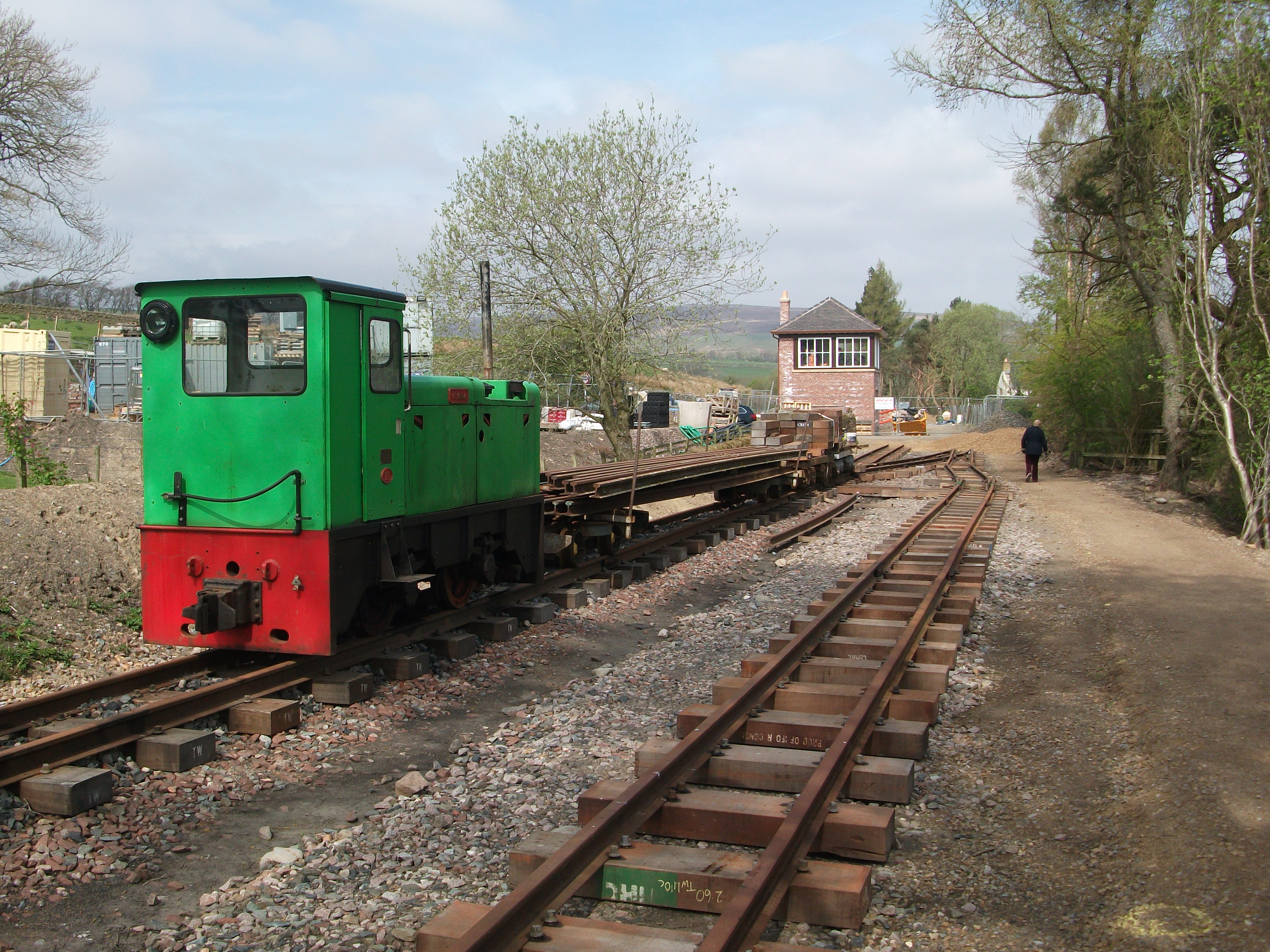 Northern railhead of the, near station, 1 May 2017.